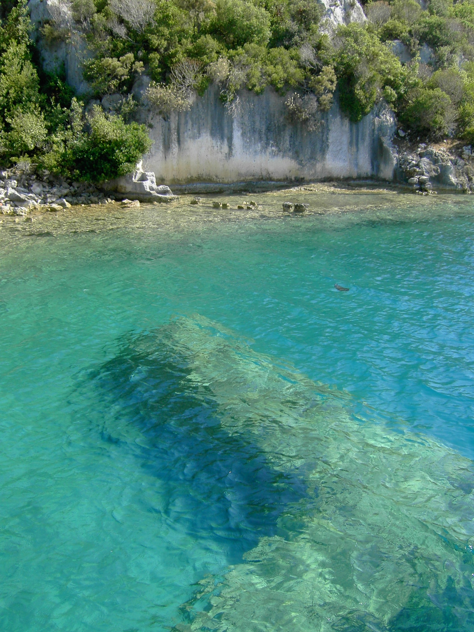 Ruins under the water on the shores of Kekova Island